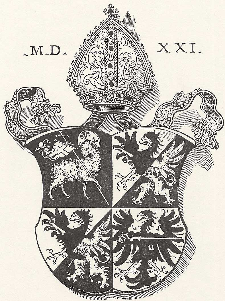 Emblem of the Bishop of Bressanone (Brixen), Sebastian Sprenger